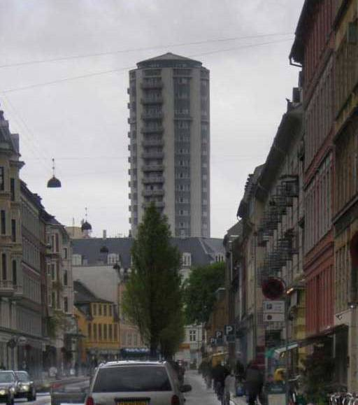 The Carlsberg silo apartment building in Copenhagen, Denmark.